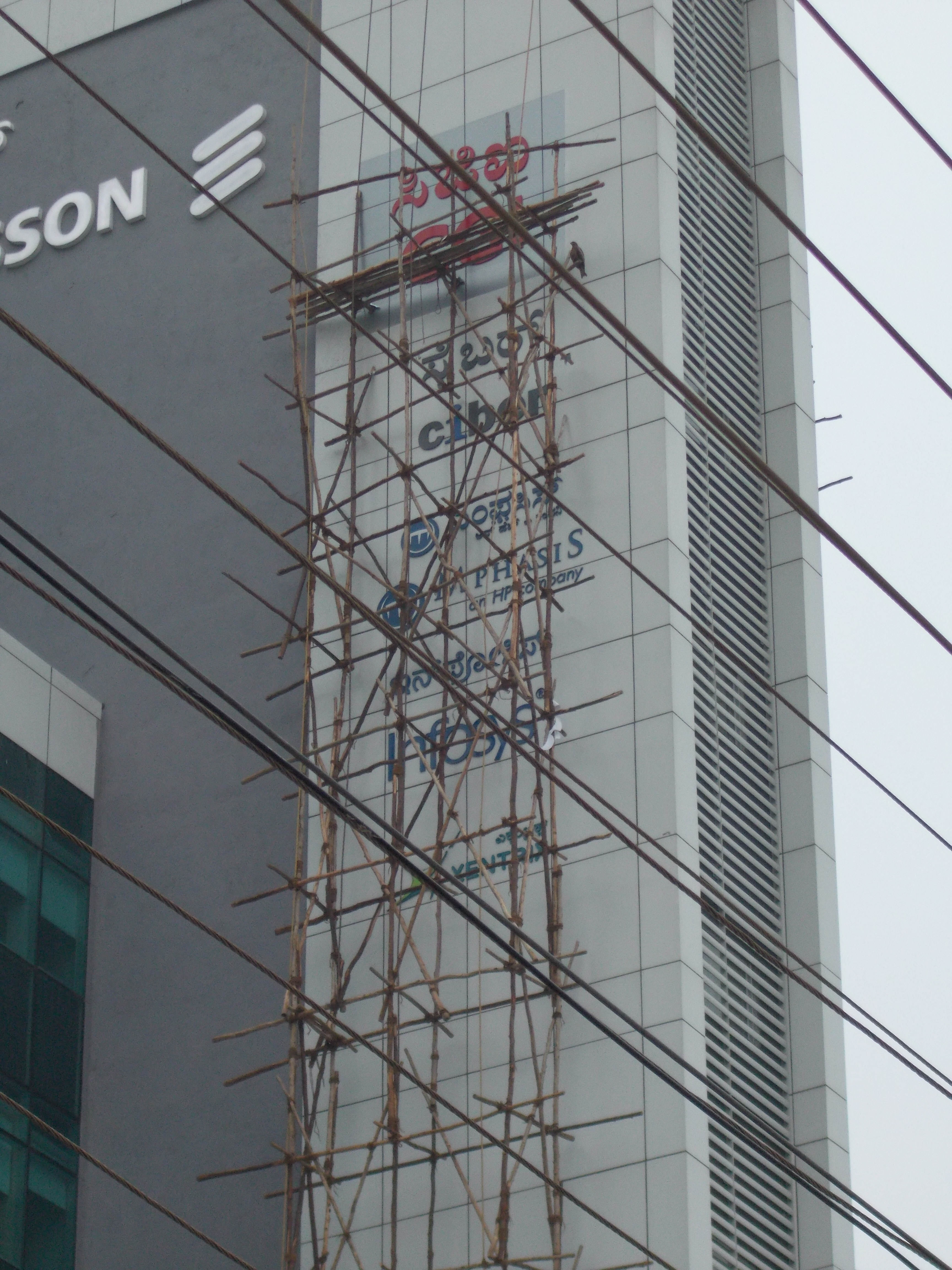 A ladder set to replace Logica's logo on its building after it has been acquired by CGI near Mahadevapura on Ouer Ring Road (ORR), Bangalore